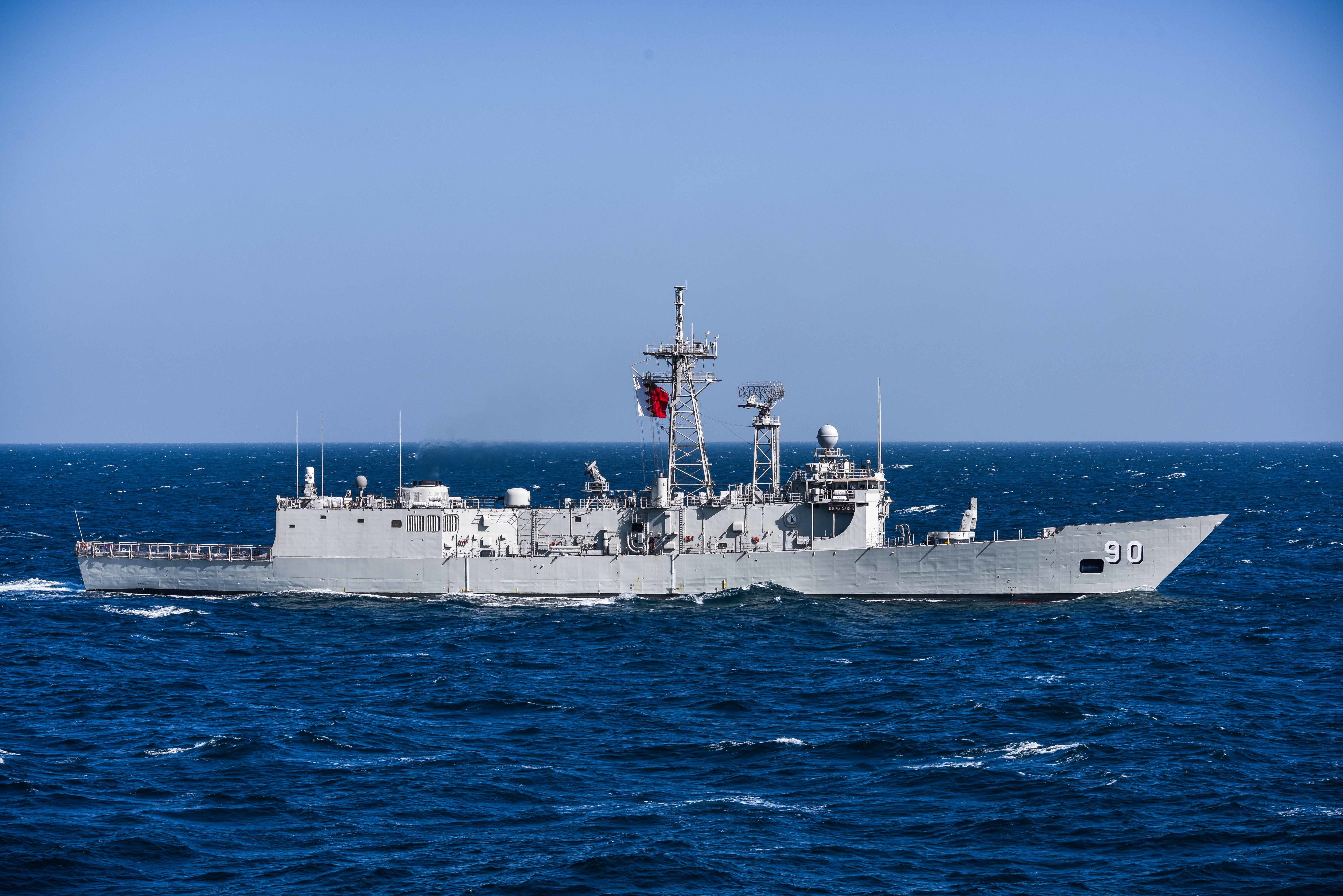 The Royal Bahrain Naval Force frigate RBNS Sabha (FFG 90) transits the Arabian Gulf alongside the U.S. Navy aircraft carrier USS Theodore Roosevelt (CVN-71), not visible.